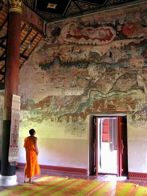 Wat Nong Bua (Thai script:วัดหนองบัว), about 40 km north (19Â°05 N + 100Â°47 E) of the city of Nan in Amphoe Tha Wang Pha. Photo by User:Takeaway